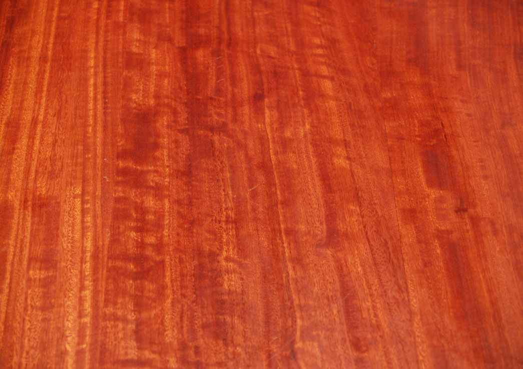 Detail of a red gum table, showing typical colour and figure